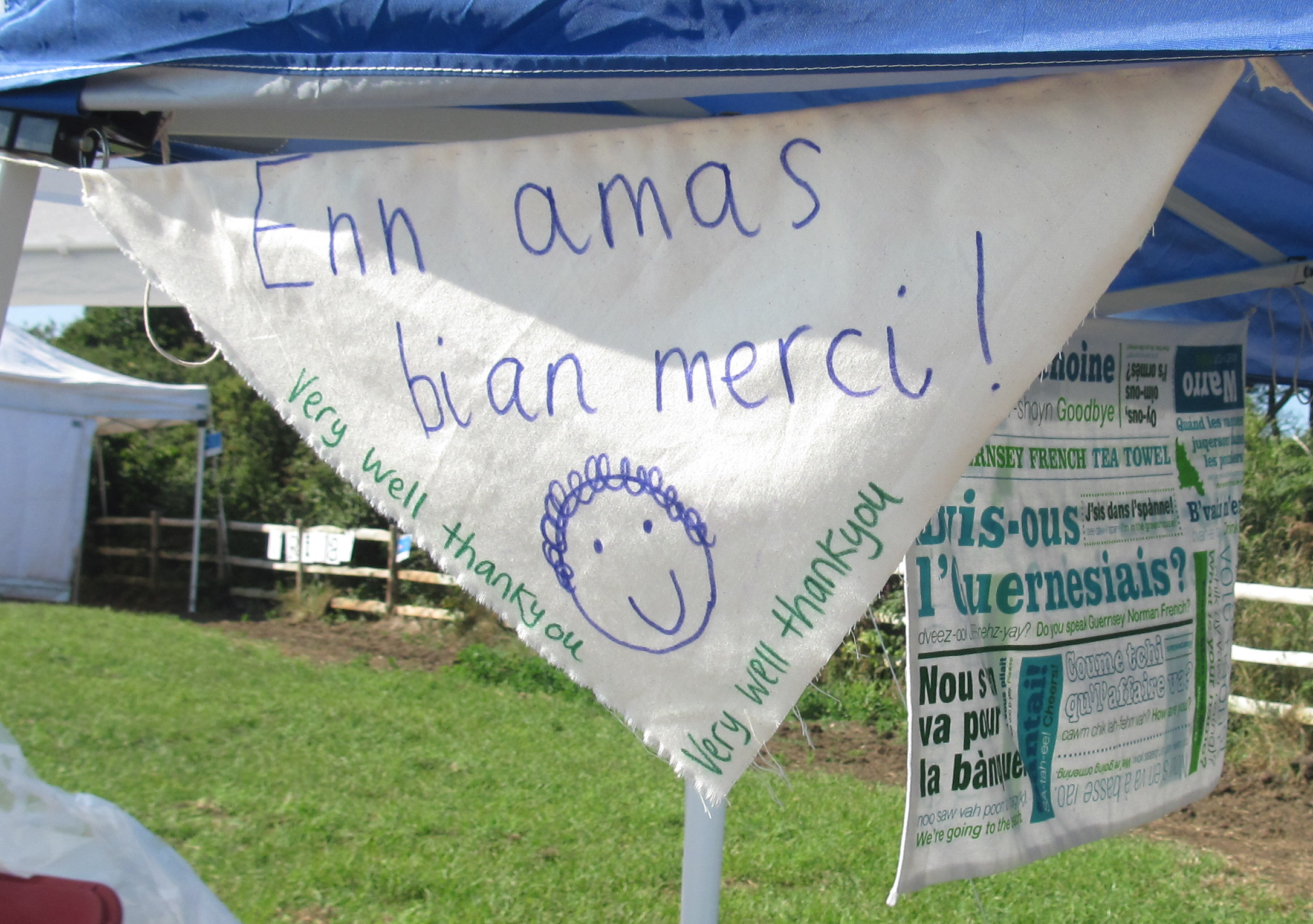 Sark Folk Festival 2011